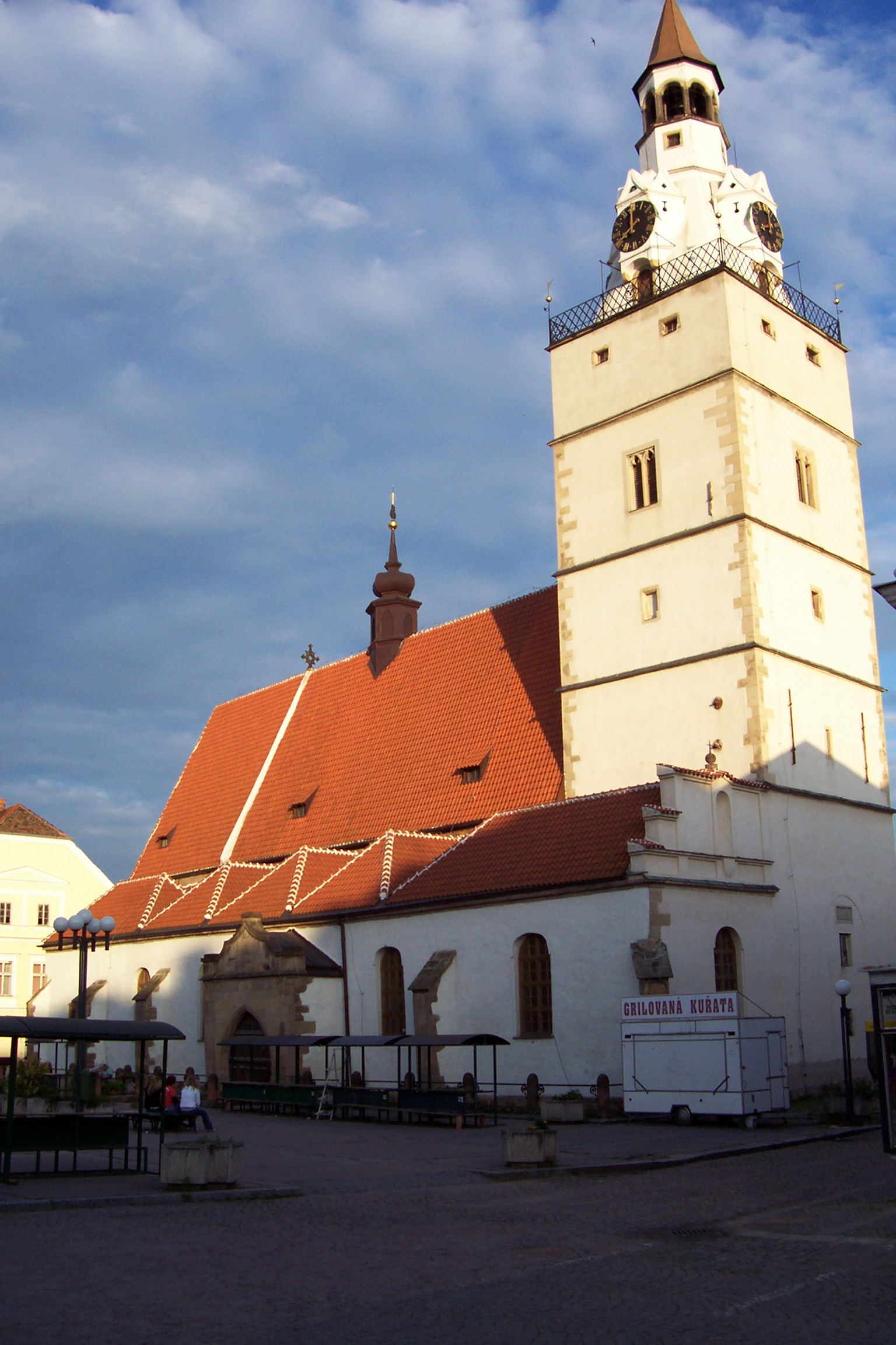 Parish church of Assumption of Virgin Mary in Ivančice, Czech Republic.